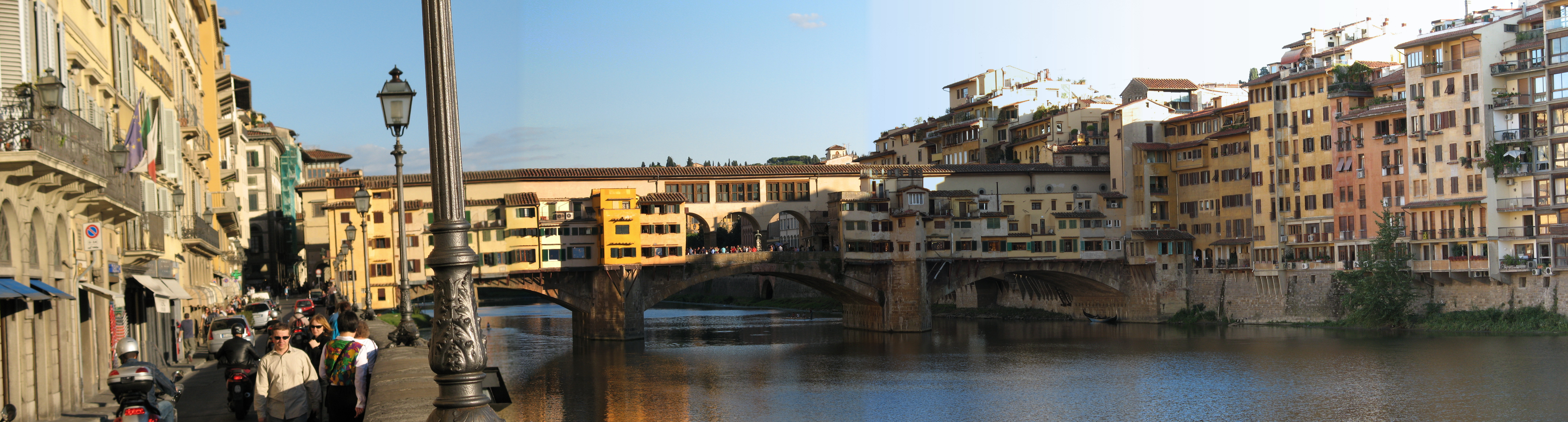 The Ponte Vecchio and the Arno River in Florence, Italy. Photo taken from the north side of the river, facing east.